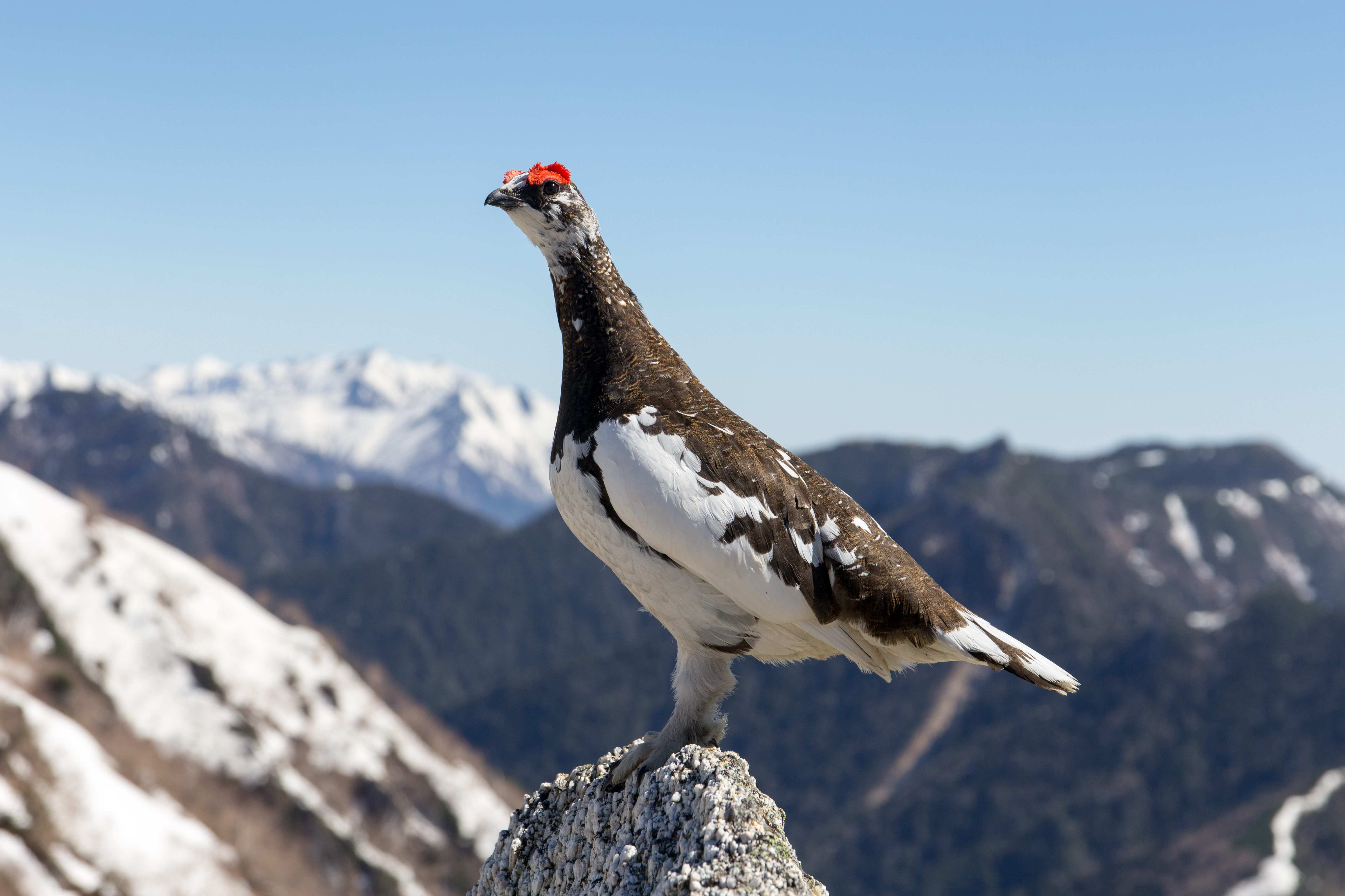 Rock ptarmigan (Lagopus muta japonica) in summer plumage on Mount Tsubakuro, Japan